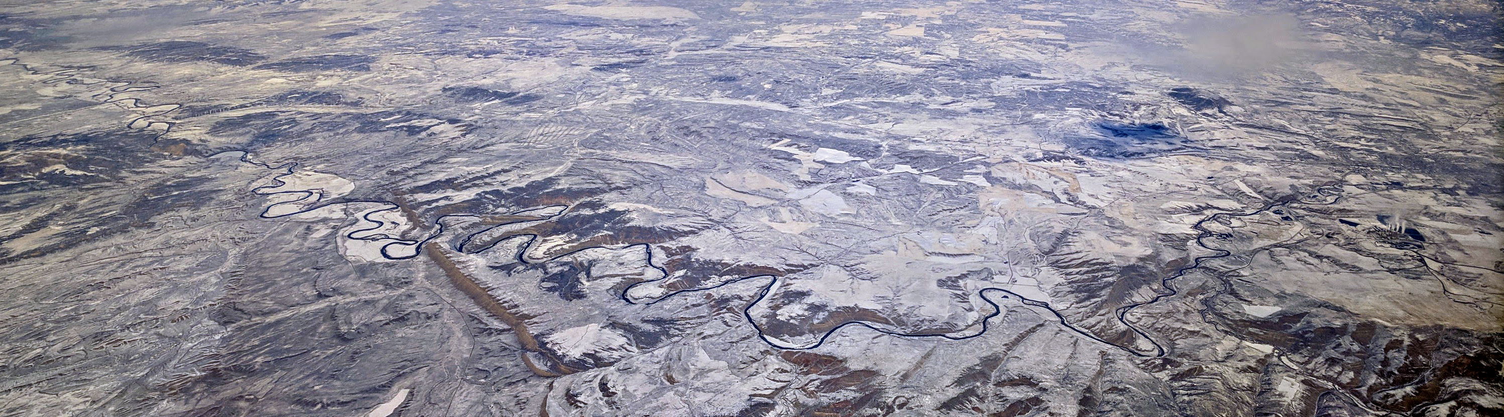 The Yampa River in northern Colorado, aerial view from the south, with the Craig Station coal-fired power plant and the municipality of Craig, Colorado, at the far right, and the town of Maybell, Colorado, at the far left.